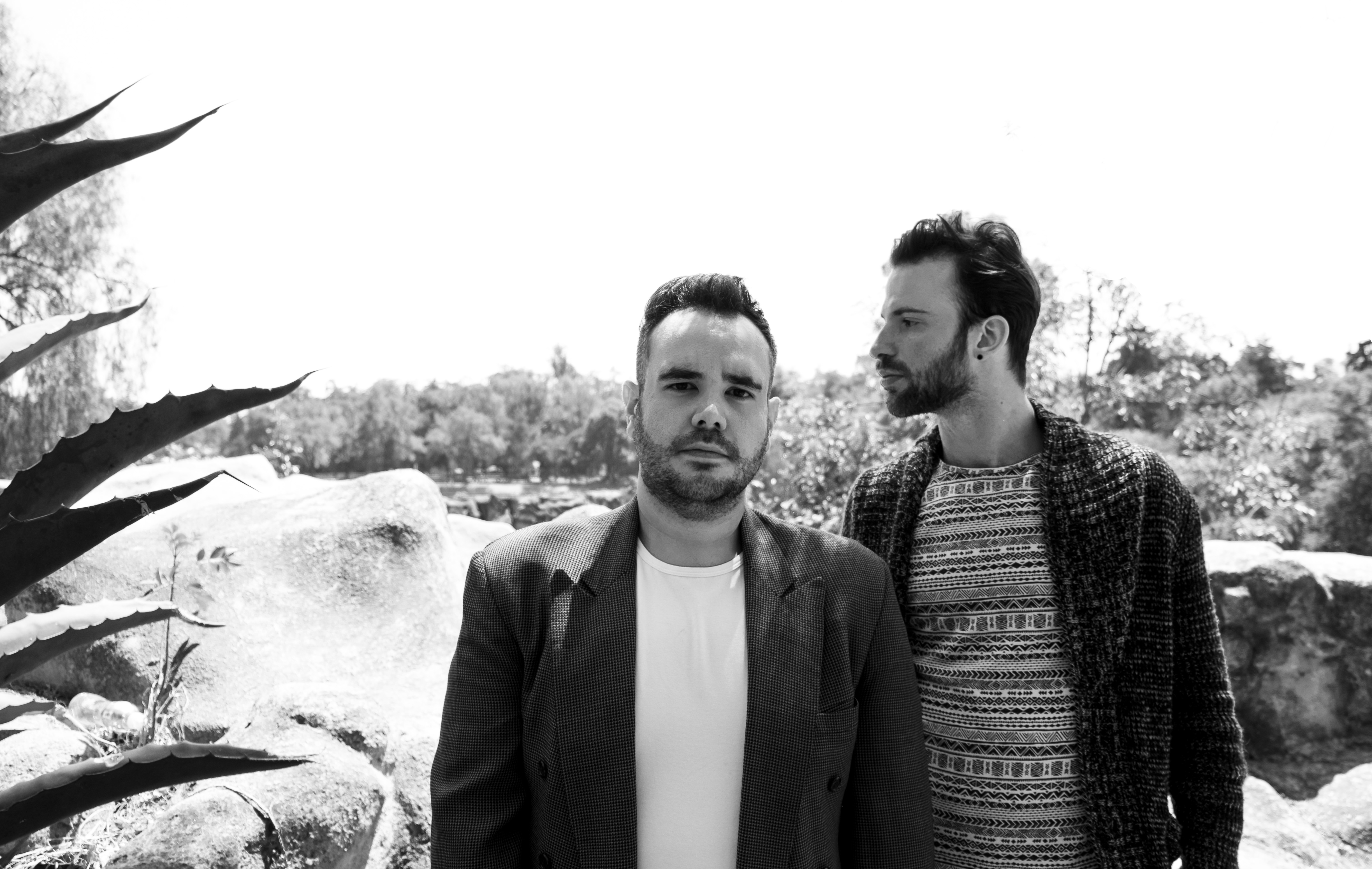 Bocatabú 2017